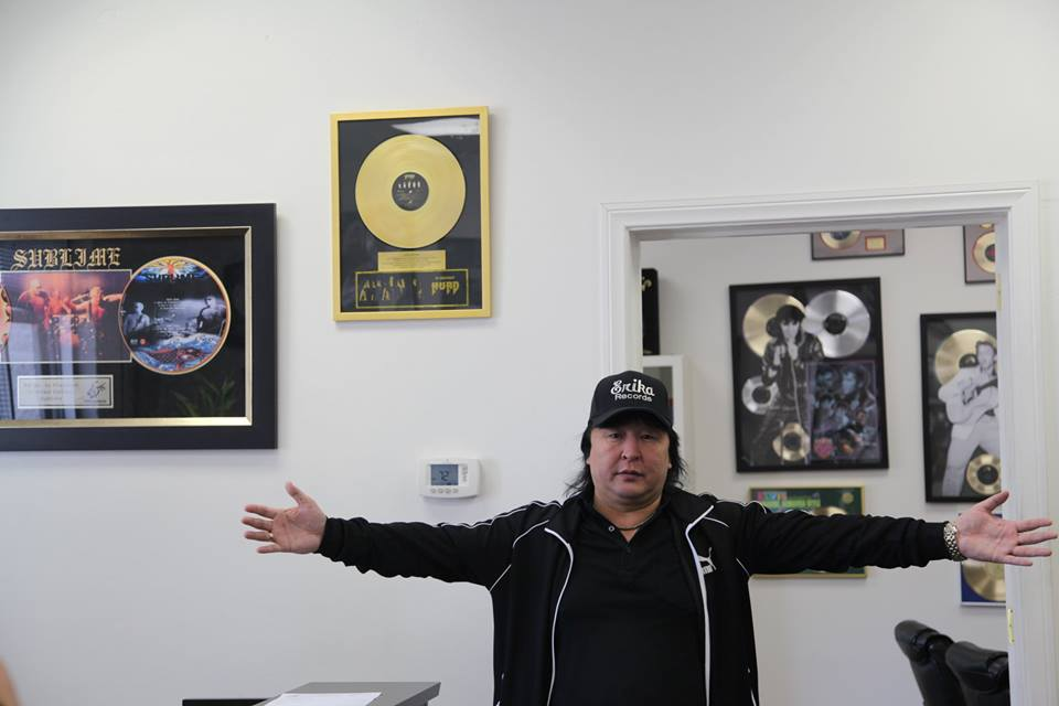 Hurdrock group leader